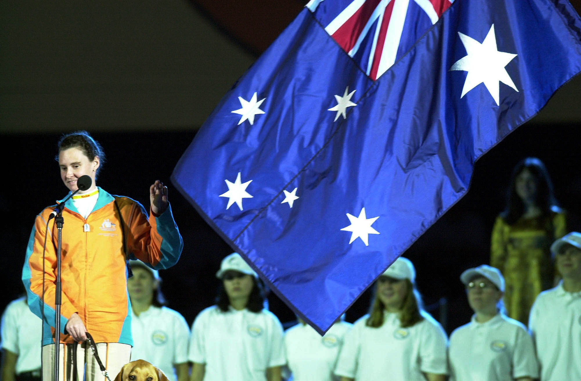 Australian swimmer Tracey Cross takes the official Athletes Oath at the Opening Ceremony of the 2000 Sydney Paralympic Games